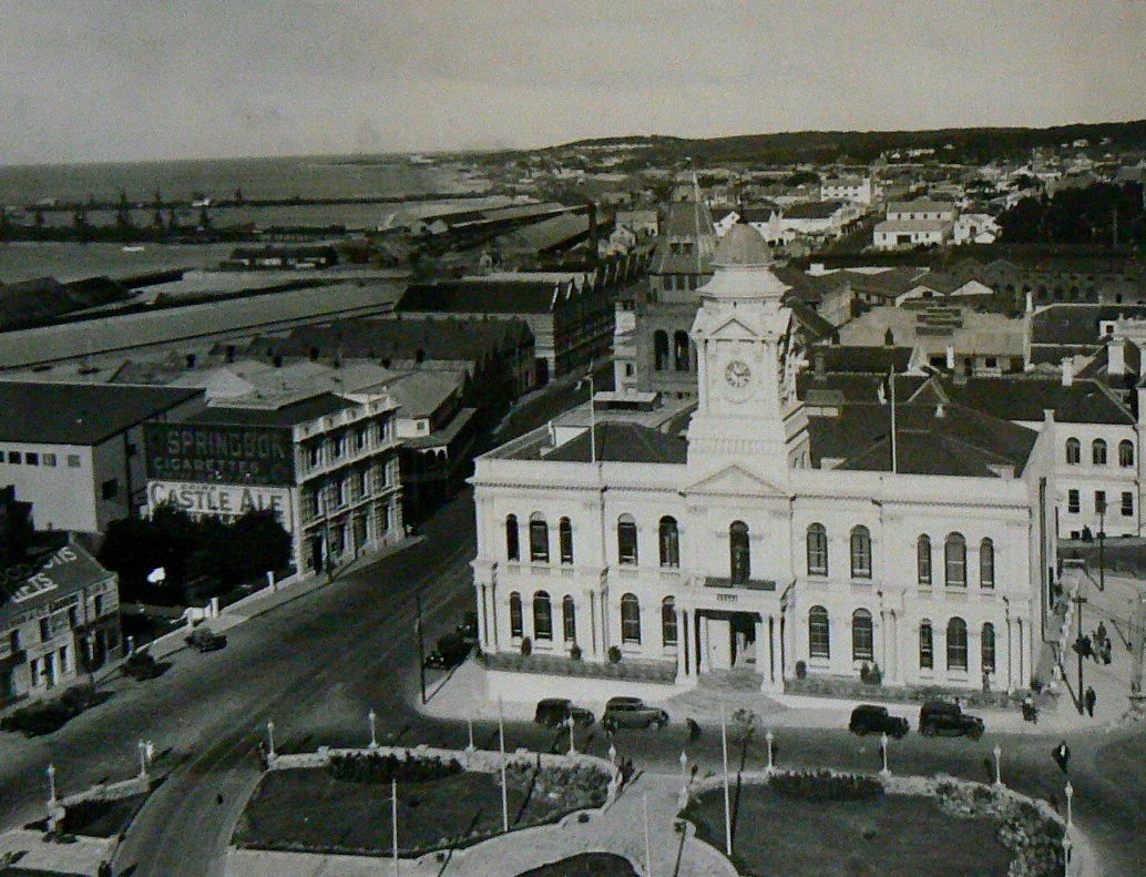 The PE city library has an extensive collection of old documents and photos from the early days of the city. This is a photo taken of one of the pictures in an album labelled Port Elizabeth 1919, showing the City Hall and Market Square as they looked then This media shows a South African Protected Site with SAHRA file reference 9/2/073/0028.